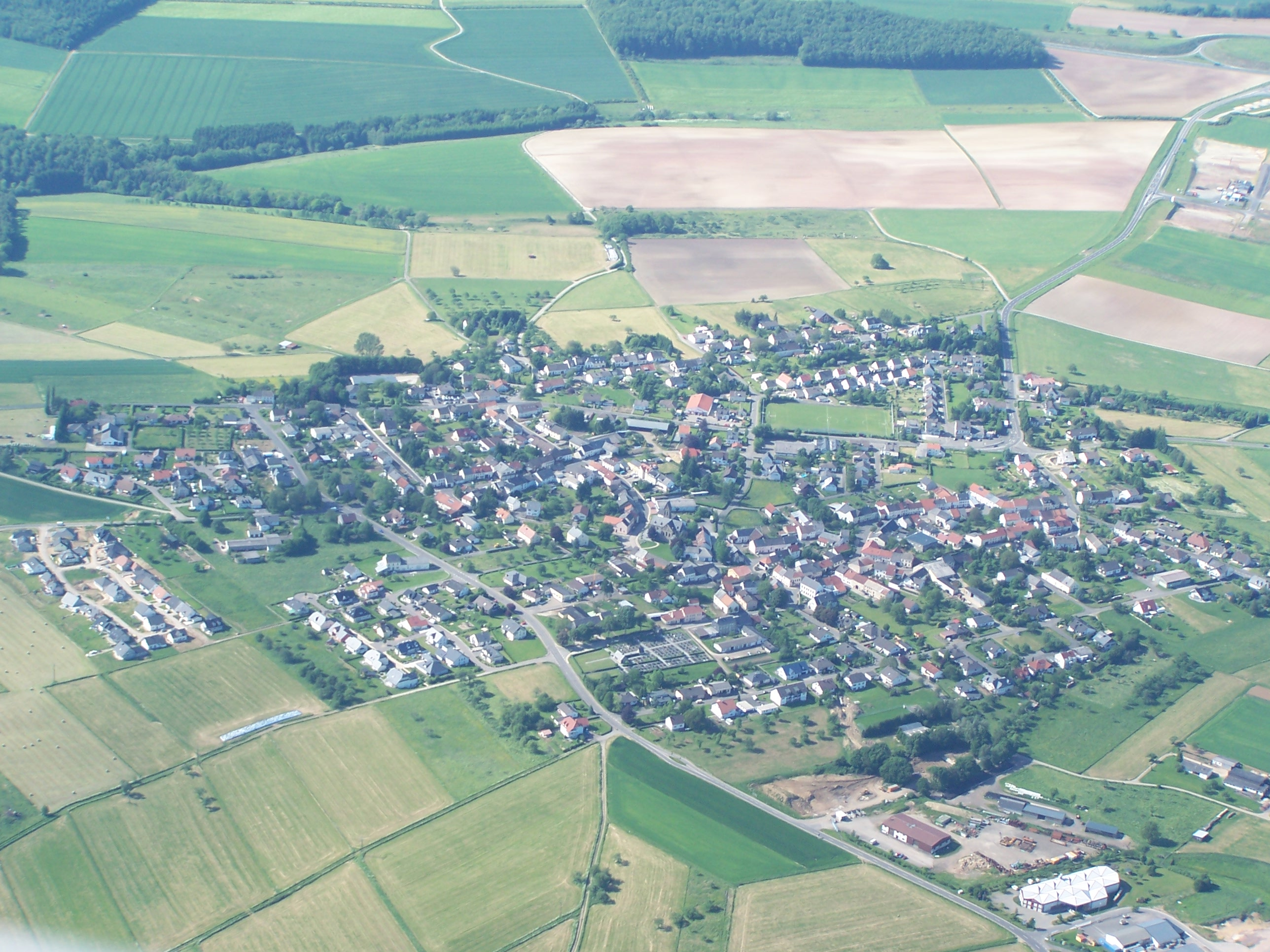 I took this picture by myself in May 2005. It shows the village of Badem